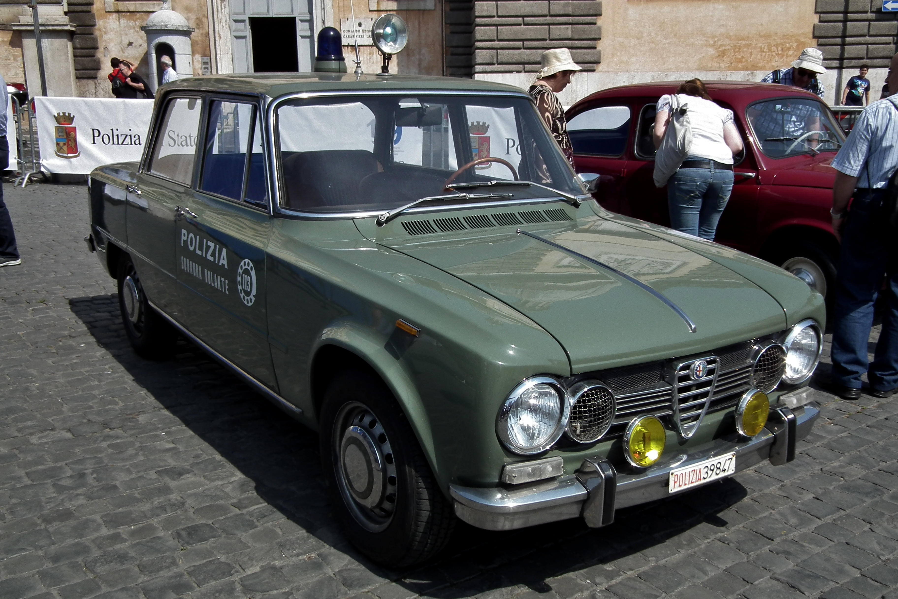 Alfa Romeo Giulia Super sedan. Operated by the Squadra Volante (Flying Squad) of the Polizia di Stato (Italian State Police). Taken at a Polizia display in the Piazza del Popolo in Rome.